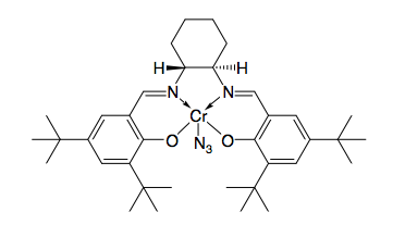 jacobsen terminal epoxide opening catalyst (R,R)